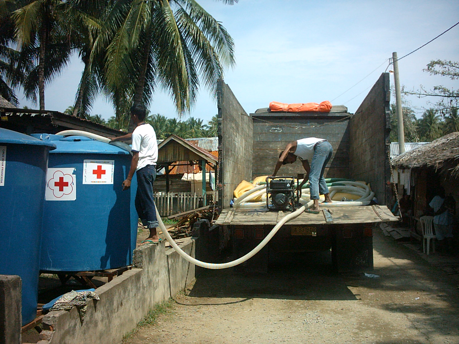 Distribution_eau. Vehicle of the Red Cross watson